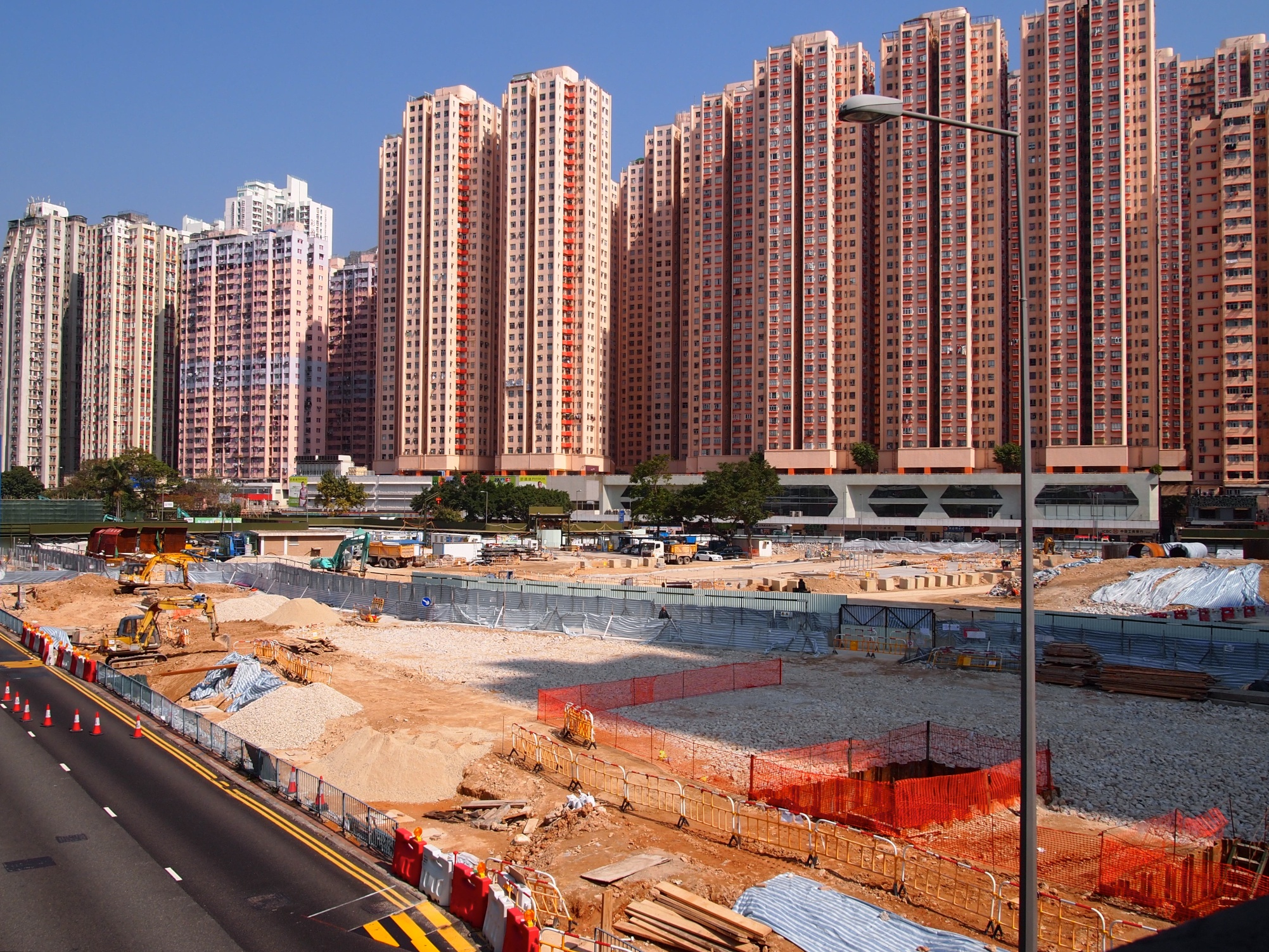 A general view of the construction site of New Lower Ngau Tau Kok Estate from Kwun Tong Road.